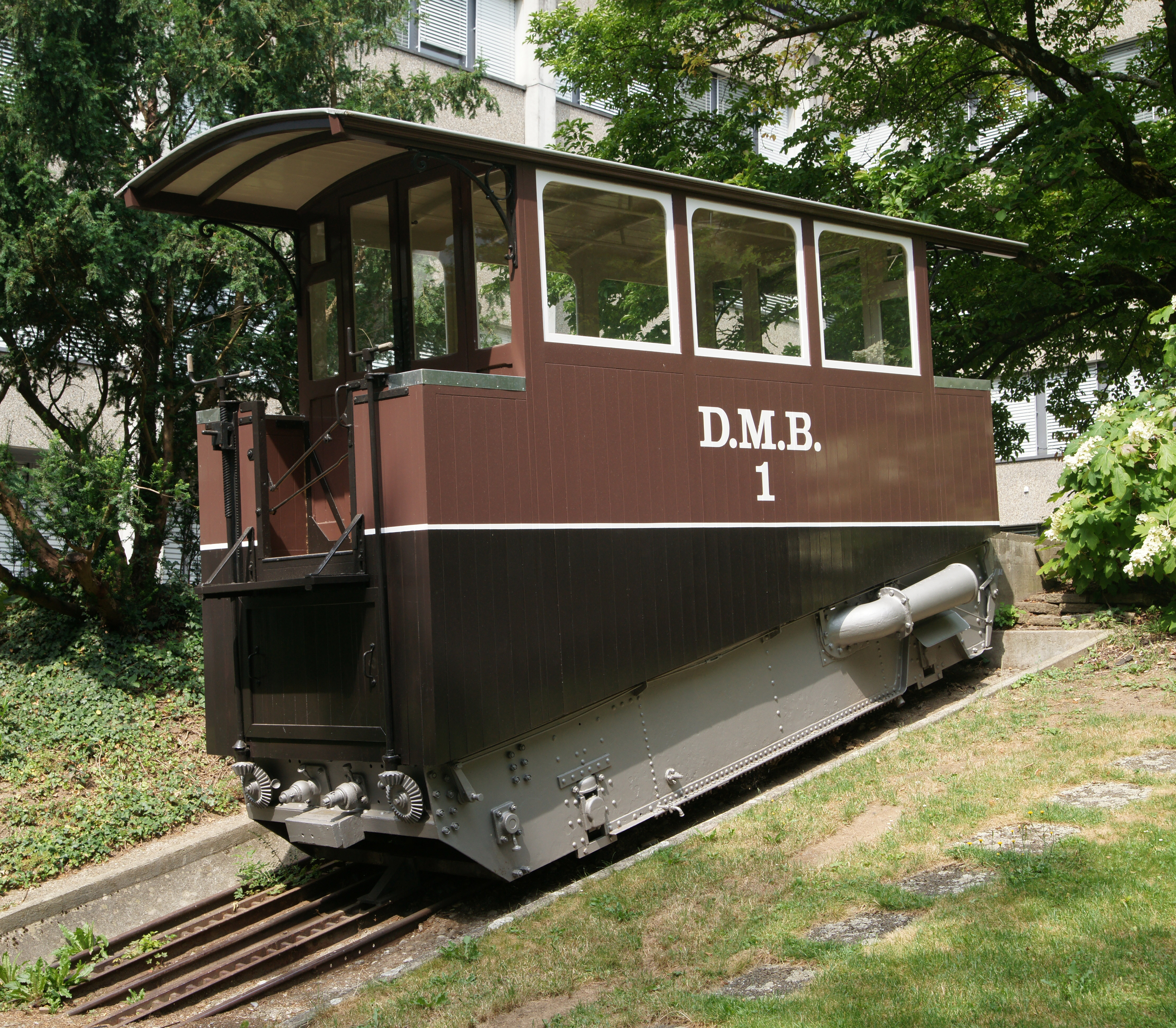 Old coach number 1 from the funicular railway Marzili (DMB), on the old town of Bern, Switzerland; operative in the years from 1913 to 1973).